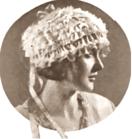 Actress Imogene Wilson, aka Mary Nolan